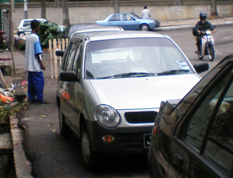 Picture of a Malaysian Valet Boy